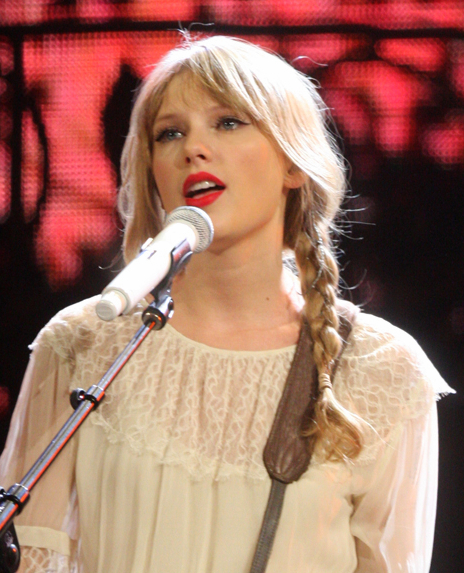 Taylor Swift - Speak Now Tour Hots Sydney, Australia 2012.